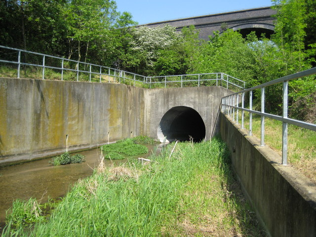 River Misbourne: M25 Motorway culvert The original purpose of the viaduct in 334301 was to take the Great Western & Great Central Joint Railway over the valley of the River Misbourne. When the M25 Motorway was built, using the arches of the viaduct to pass under the railway, the river had to be culverted under the motorway. This is the downstream portal of the culvert with the railway viaduct visible over the trees in the background.